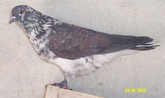 Iranian Highflying Tumbler Hen (ghara).